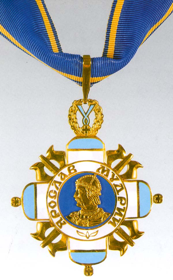 Order of the Yaroslav the Great